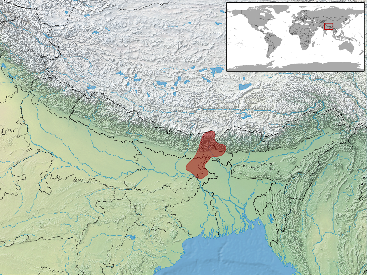 geographic distribution of Japalura variegata (Native: India; Nepal)